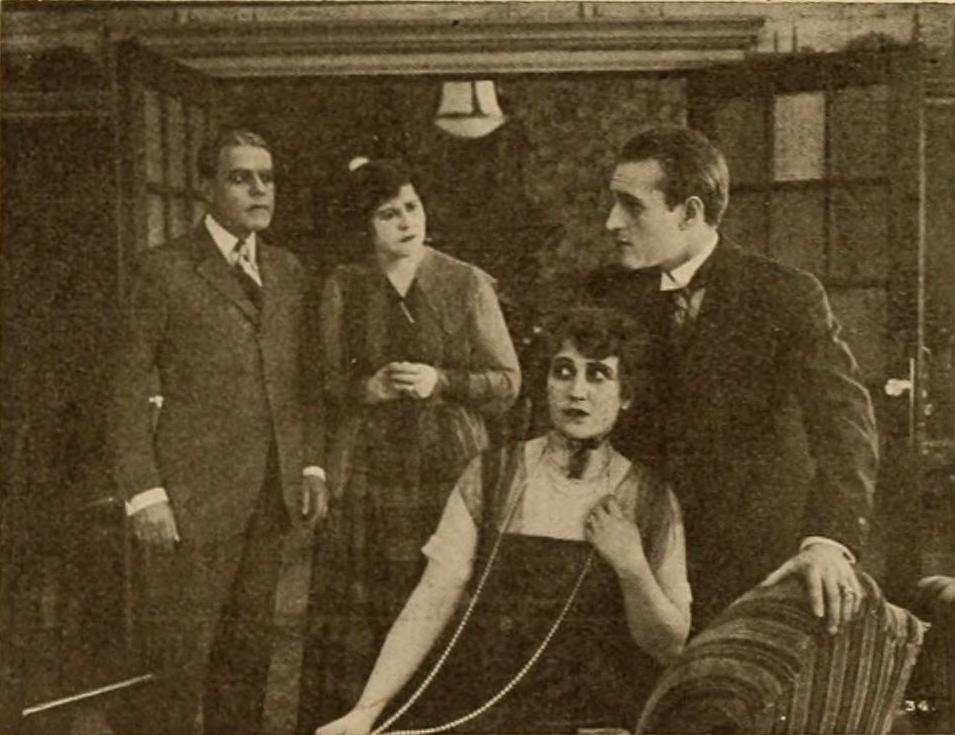 A scene from One Law for Both a 1917 silent film directed by Ivan Abramson. From left to right appears Vincent Serrano, Leah Baird, Rita Jolivet, and James W. Morrison. The photo appears on page 1137, May 19, 1917 edition of The Moving Picture World.